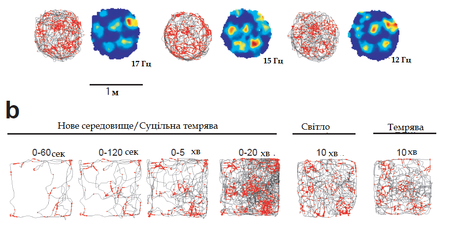 Grid activity after onset of darkness. SI from the paper Microstructure of a spatial map in the entorhinal cortex", 2005